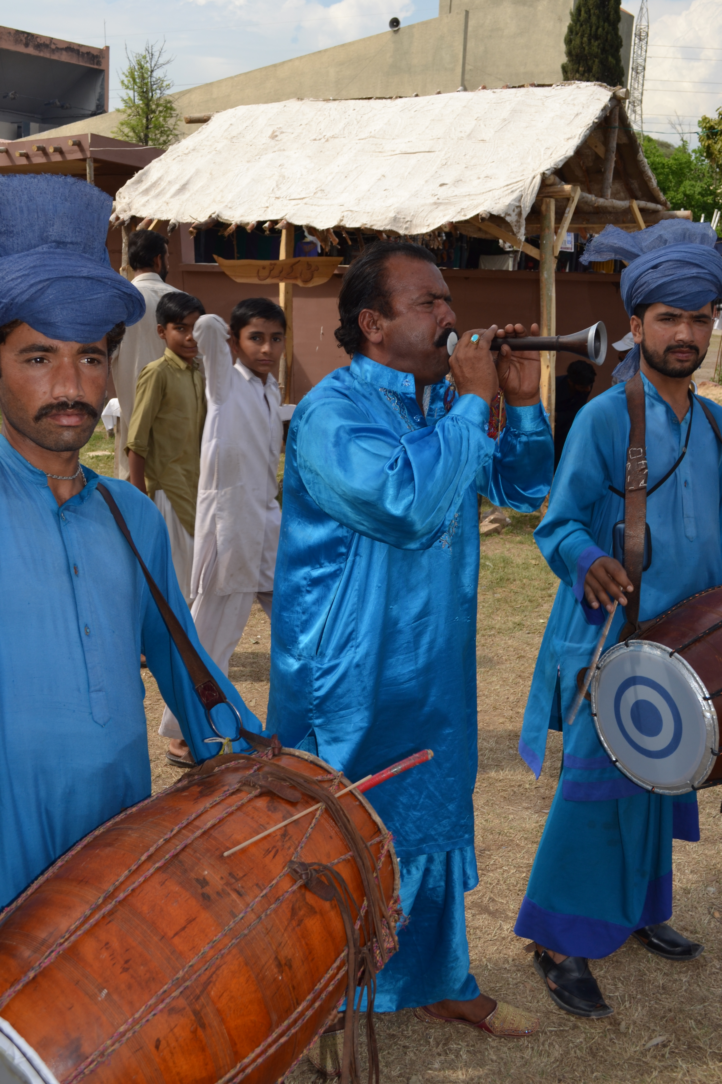 Punjabi Folk dancers